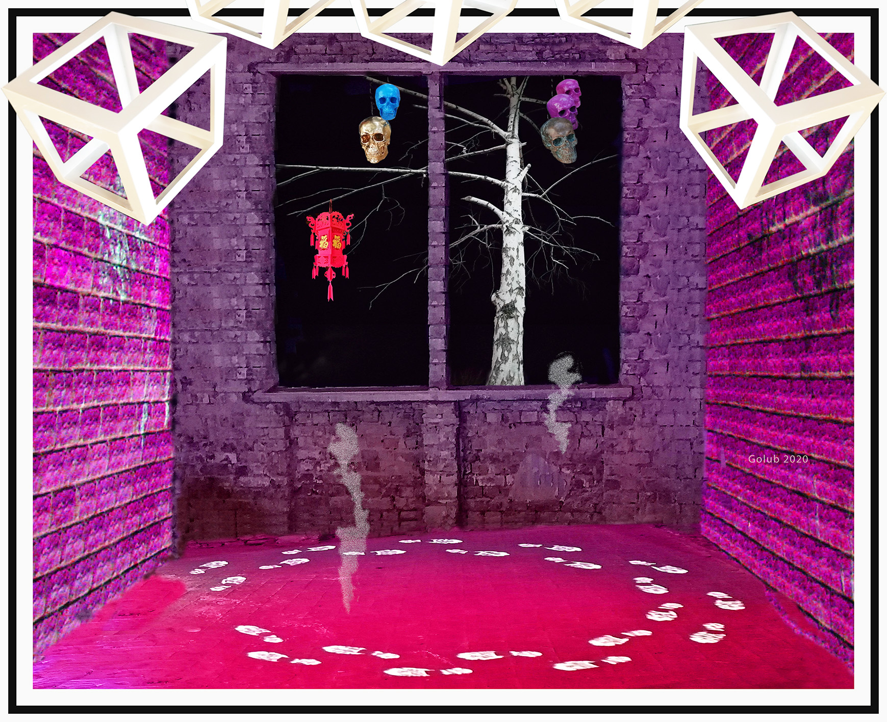 Golub Quiet room 2020_Digital print